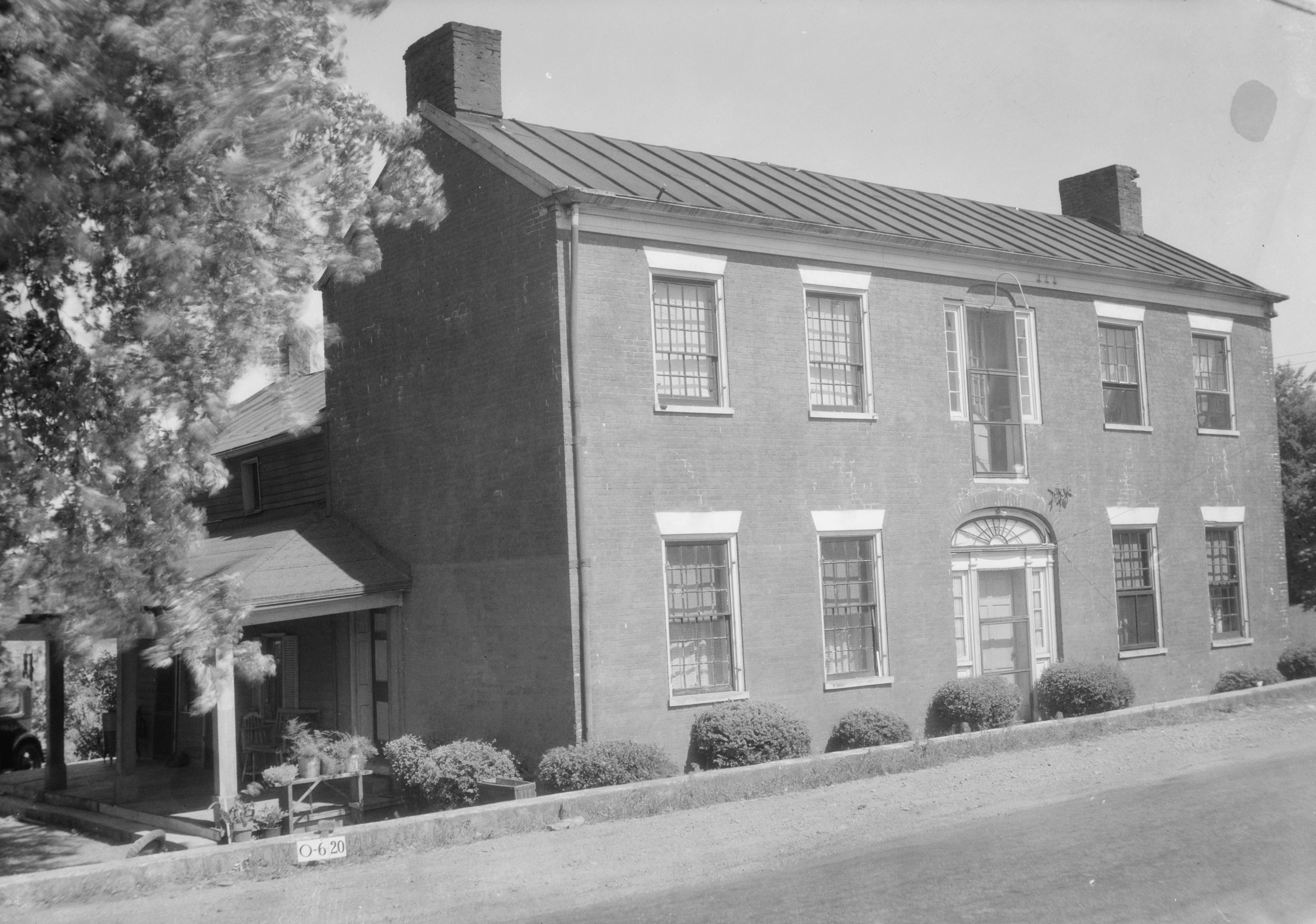 Front of the Harrison-Landers House, located at 3881 Newtown Road north of Newtown in Anderson Township, Hamilton County, Ohio, United States. Built in 1816, it is listed on the National Register of Historic Places.